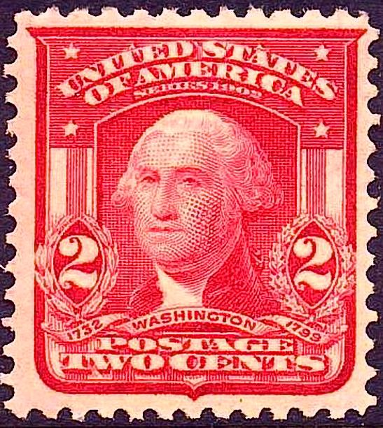 US Postage stamp: George Washington. Issue of 1903, 2c